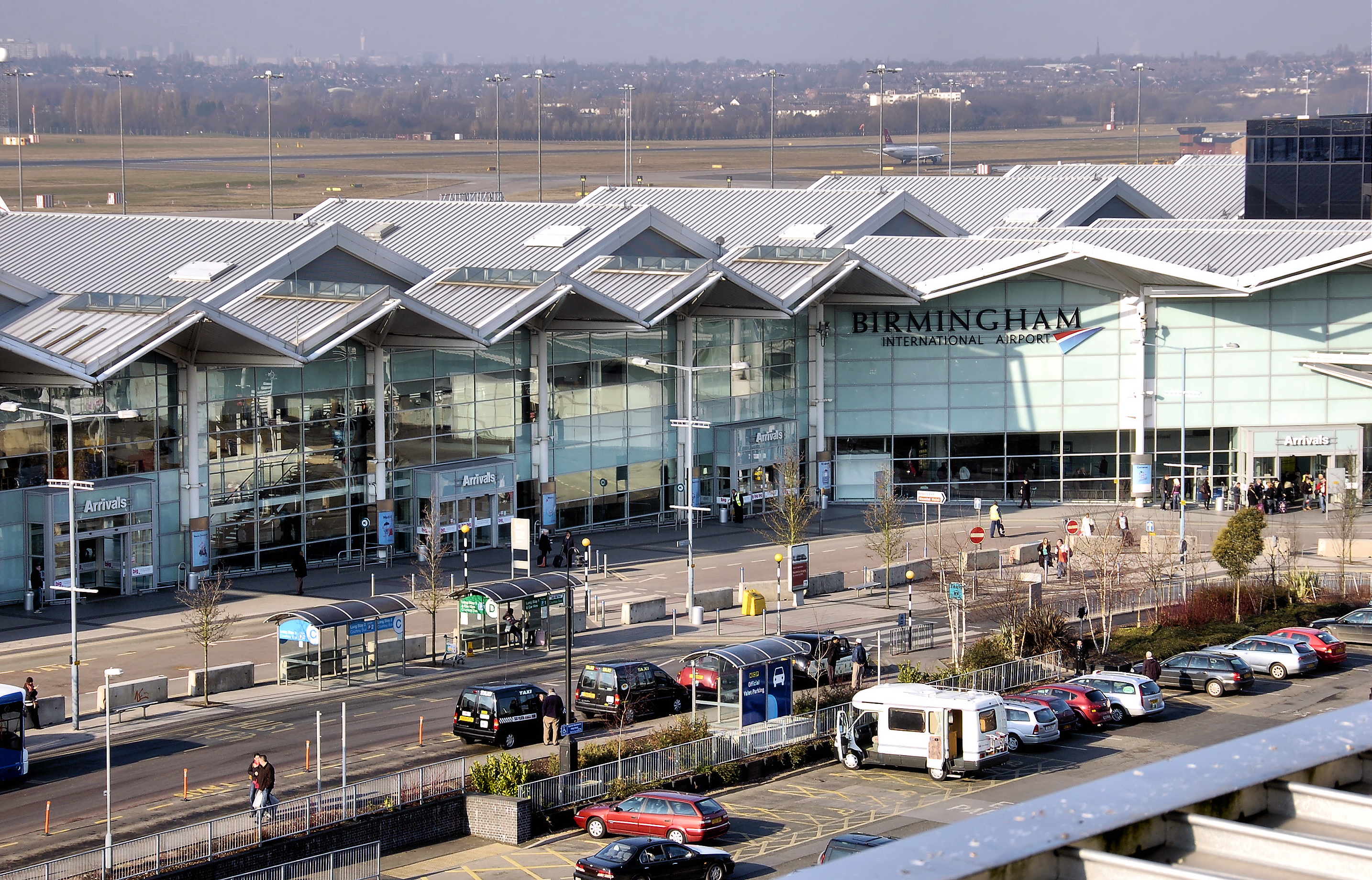 Part of Terminal 2 at Birmingham International Airport, England, taken from the top level of a multi-storey car park. The runway is seen beyond, with an Air Malta aircraft. Notice the concrete blocks that seal off the road alongside the terminal, for security reasons. This means that passengers and baggage can no longer be put down directly at the terminal. The Birmingham Airport Shuttle Cars run from the front of the airport.